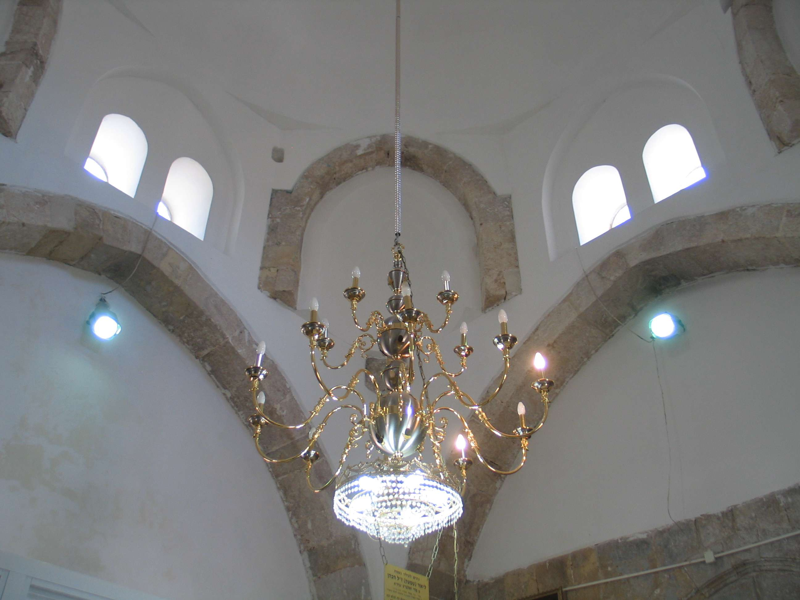 Rabbi Gamliel's tomb (Mausoleum of Abu Huraira), Yavne.